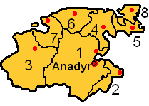 Map of districts of Chukotka.